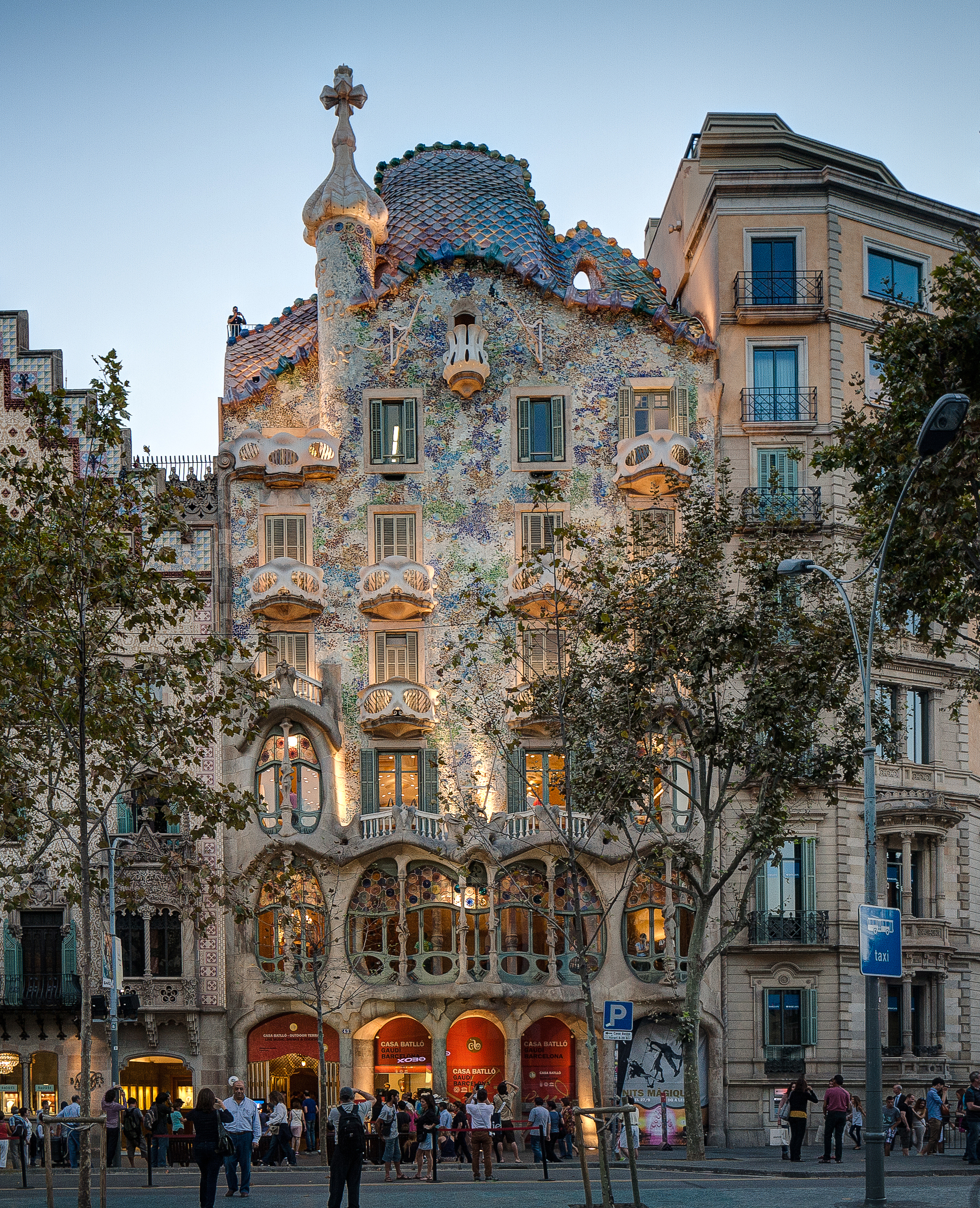 Casa Battló